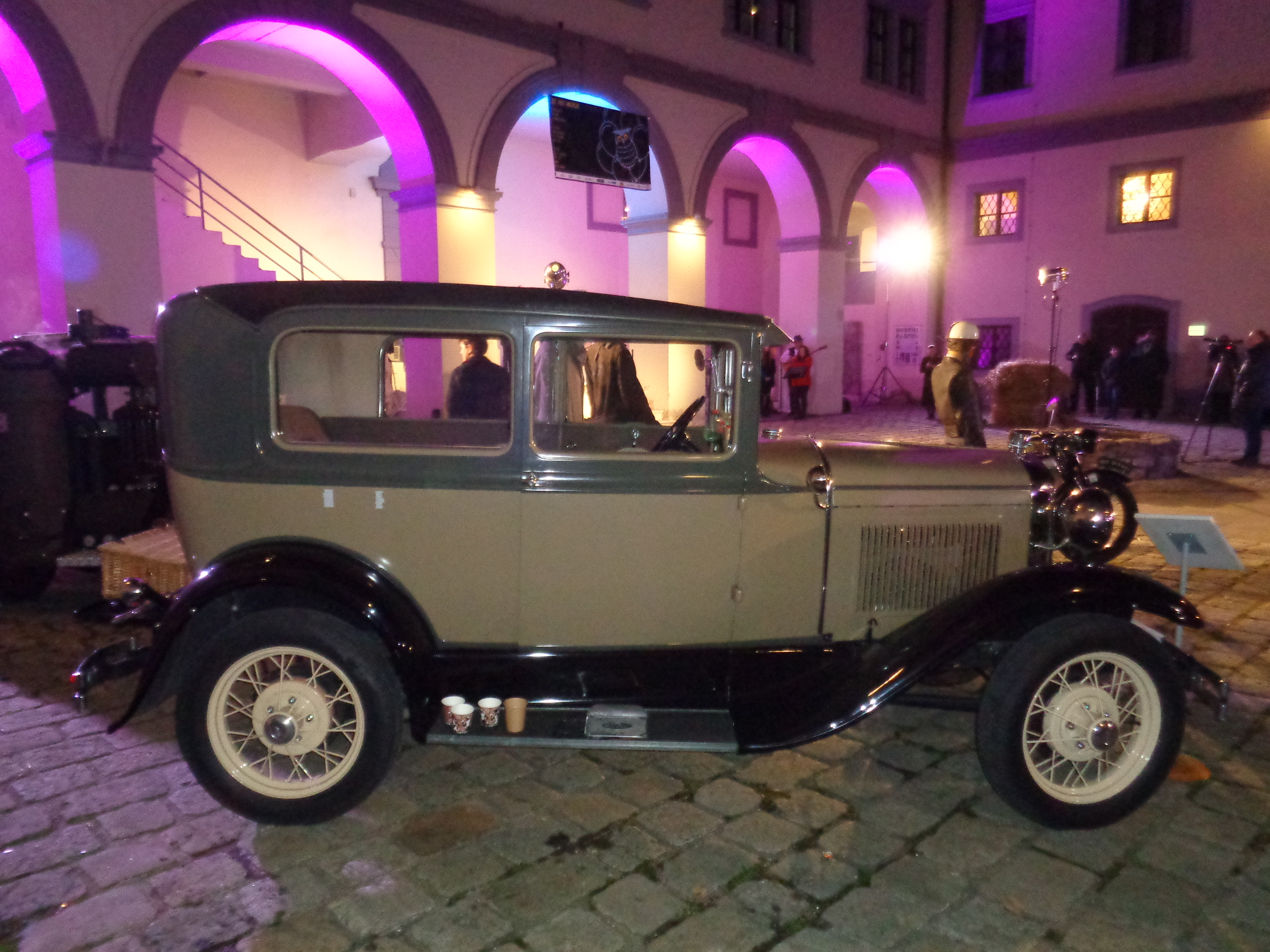 1930 Ford A from the Oldtimer Museum Šardi (Selnica, Medjimurie County), at 2020 Night of Museums in Čakovec, Croatia - side view